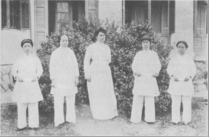 Five women standing in a row outdoors. The women at the center is the tallest, and is a white woman wearing a white dress. The rest are Chinese women, wearing trousers and long smocks.